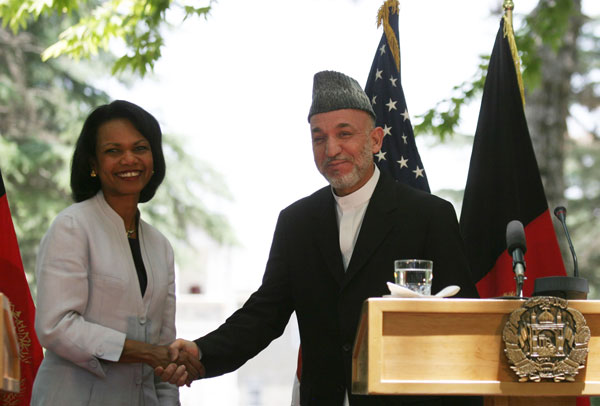 Secretary Rice meets with Afghan President Hamid Karzai in Kabul, Afghanistan. June 28, 2006